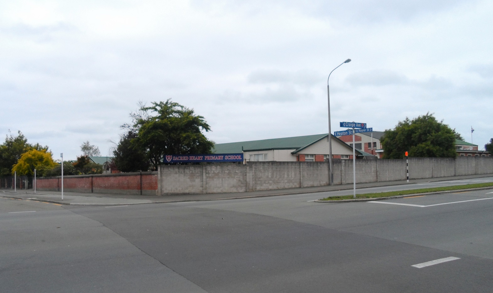 Craigie St view of state-integrated Catholic school Sacred Heart Primary School in Timaru in 2015.